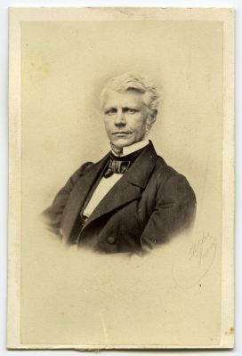 Friedrich Heinrich Bidder